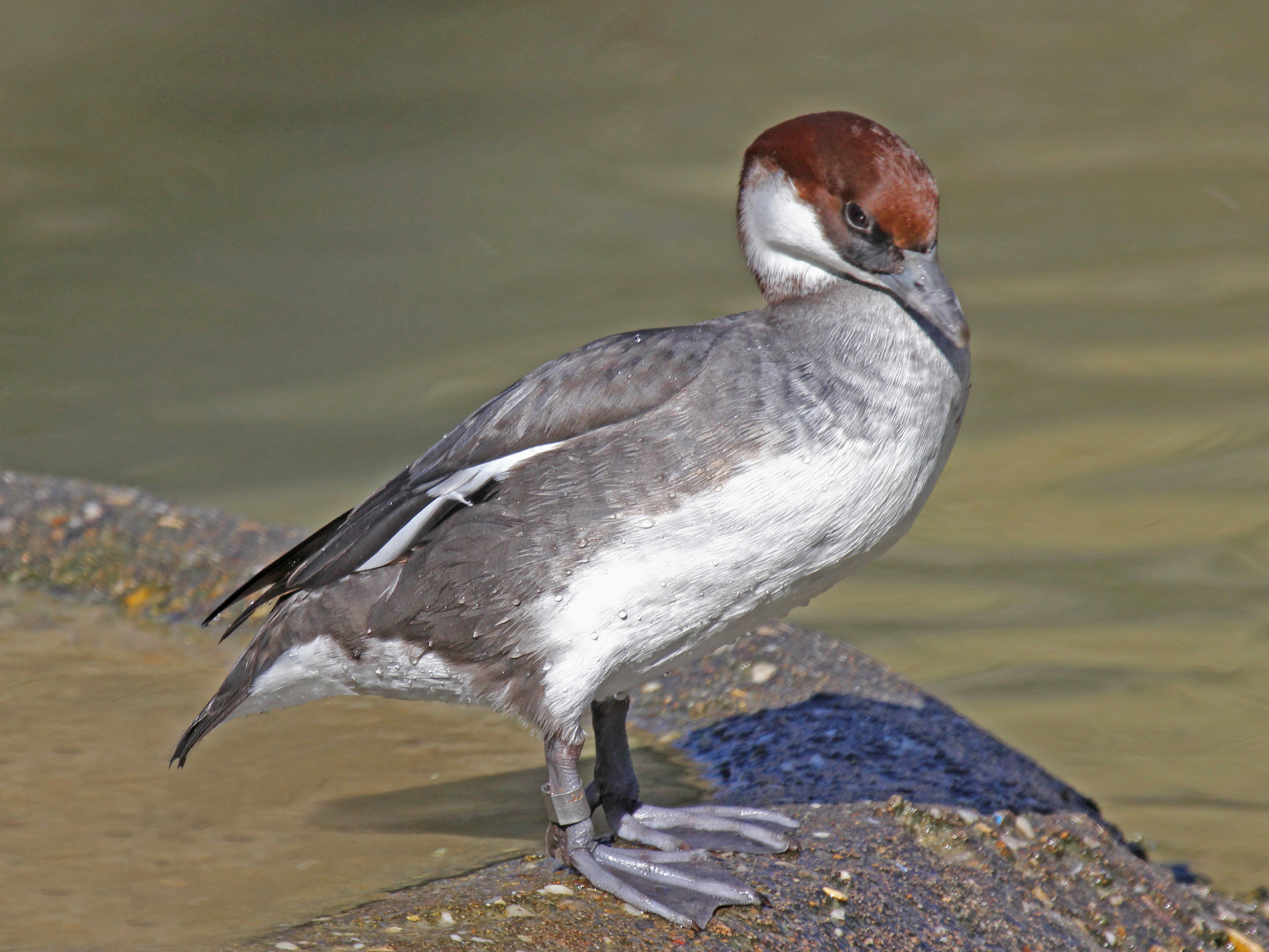 Female Smew (Mergellus albellus) - Sylvan Heights Waterfowl Park, North Carolina